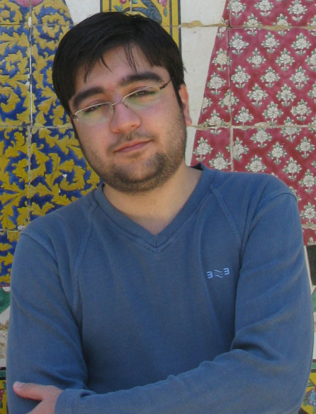 Kourosh Ziabari shown in the Eram Garden, Shiraz, southern Iran